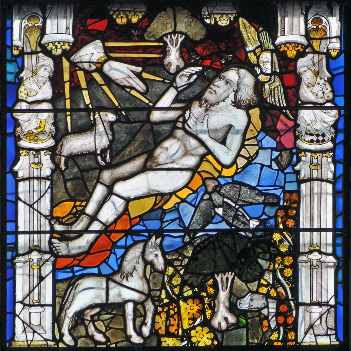 York Minster, Great East Window.